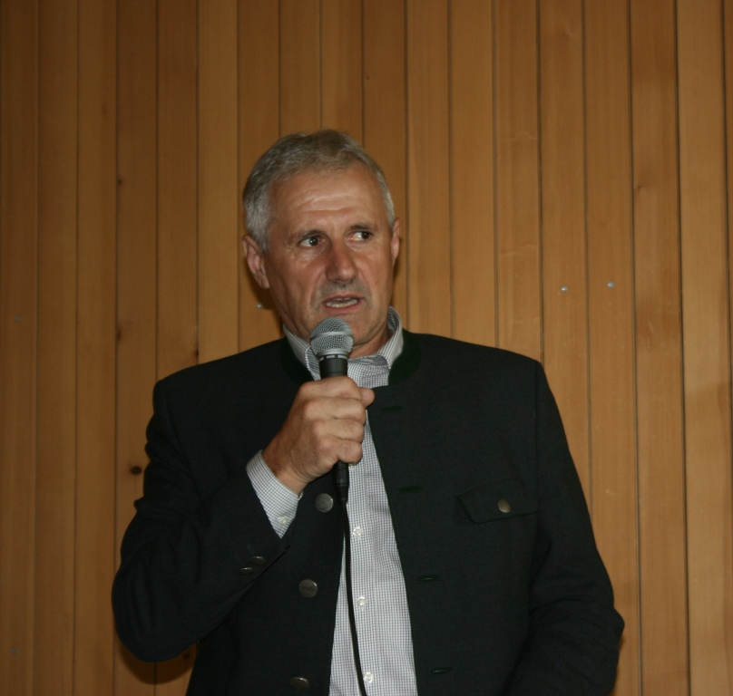 Josef Moosbrugger, member of the parliament of Vorarlberg and former mayor of Bizau (a village in Vorarlberg). Picture taken during a speech on September 21st 2008 in Bizau.